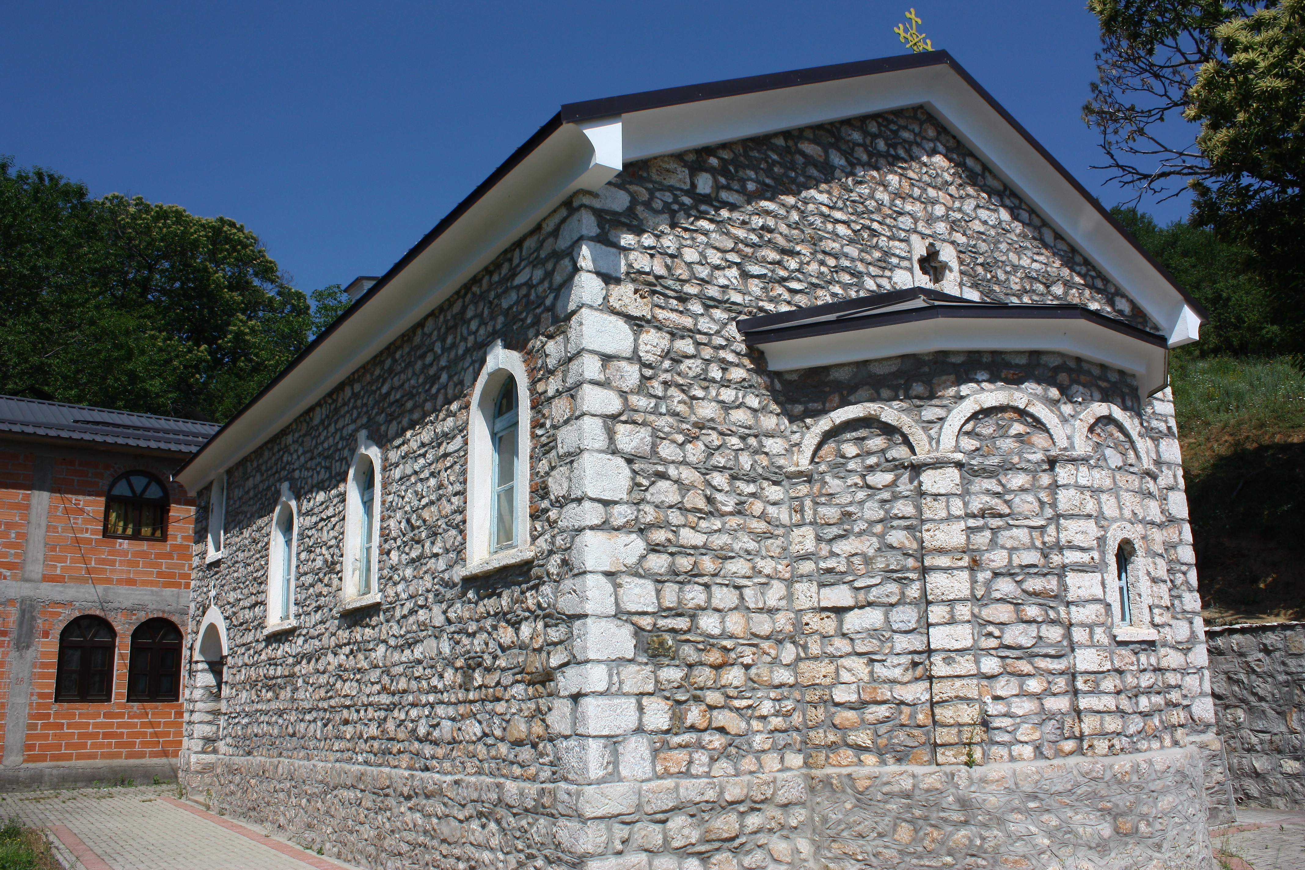 St. John the Baptist Church in Novo Selo, a village between Gostivar and Mavrovo, Macedonia